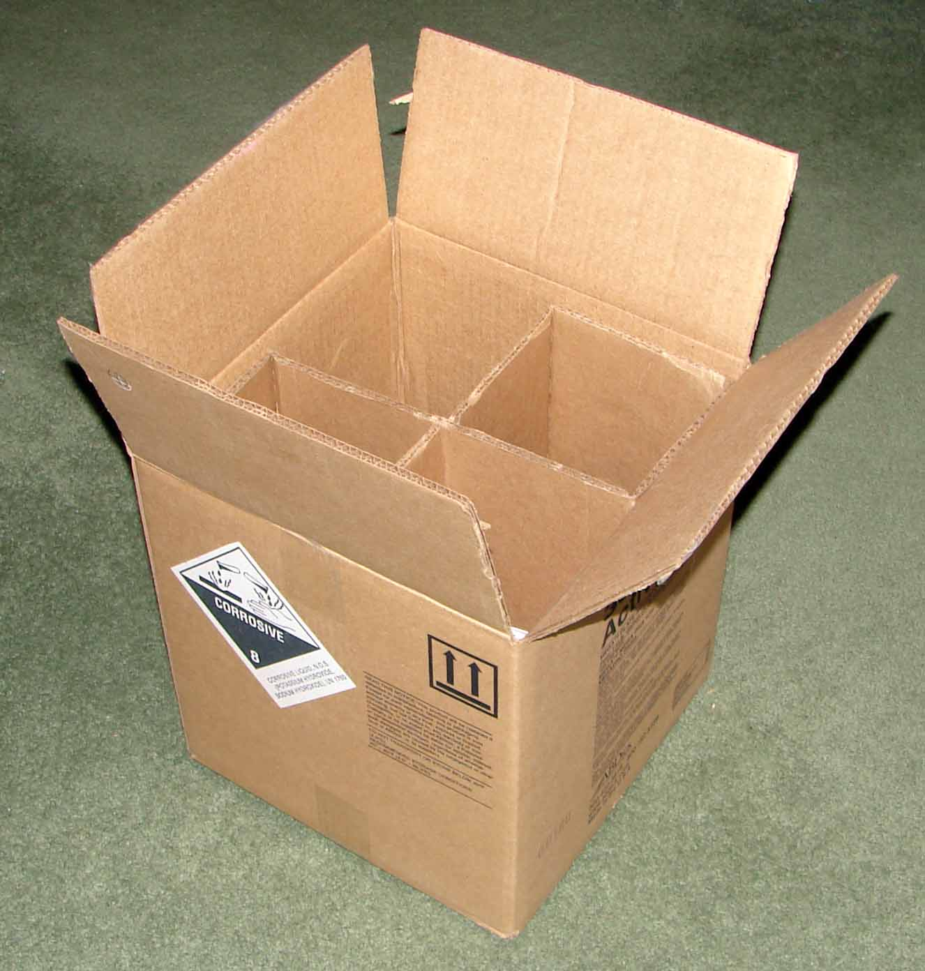 Doublewall corrugated box and divider used for shipping bottles of dangerous goods